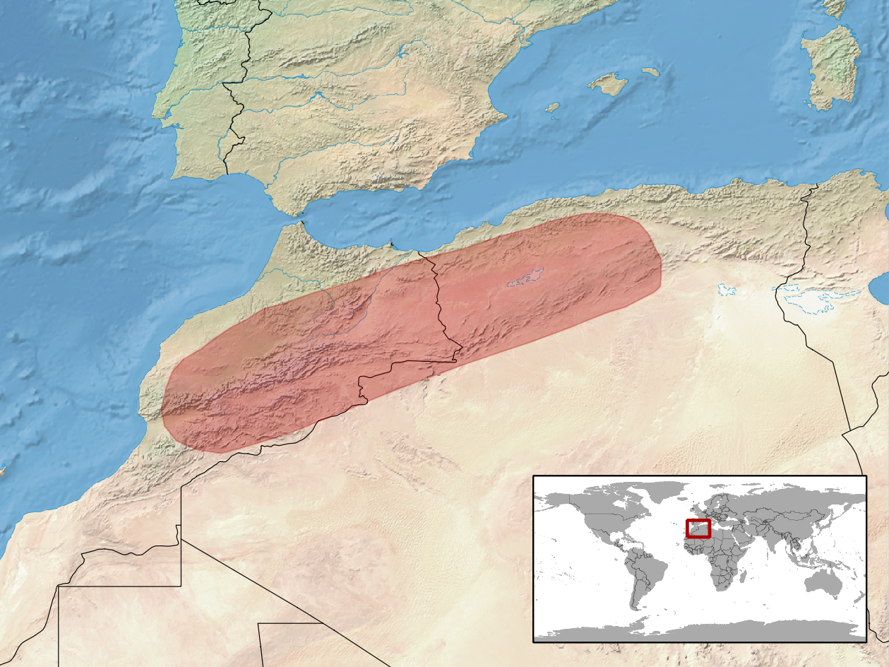 geographic distribution of Ophisaurus koellikeri syn Hyalosaurus koellikeri (Native: Algeria; Morocco) IUCN lists the species twice, as Ophisaurus koellikeri and Hyalosaurus koellikeri. This map is based on O. koellikeri (last assessed in 2010) instead of H. koellikeri (assessed in 2006).